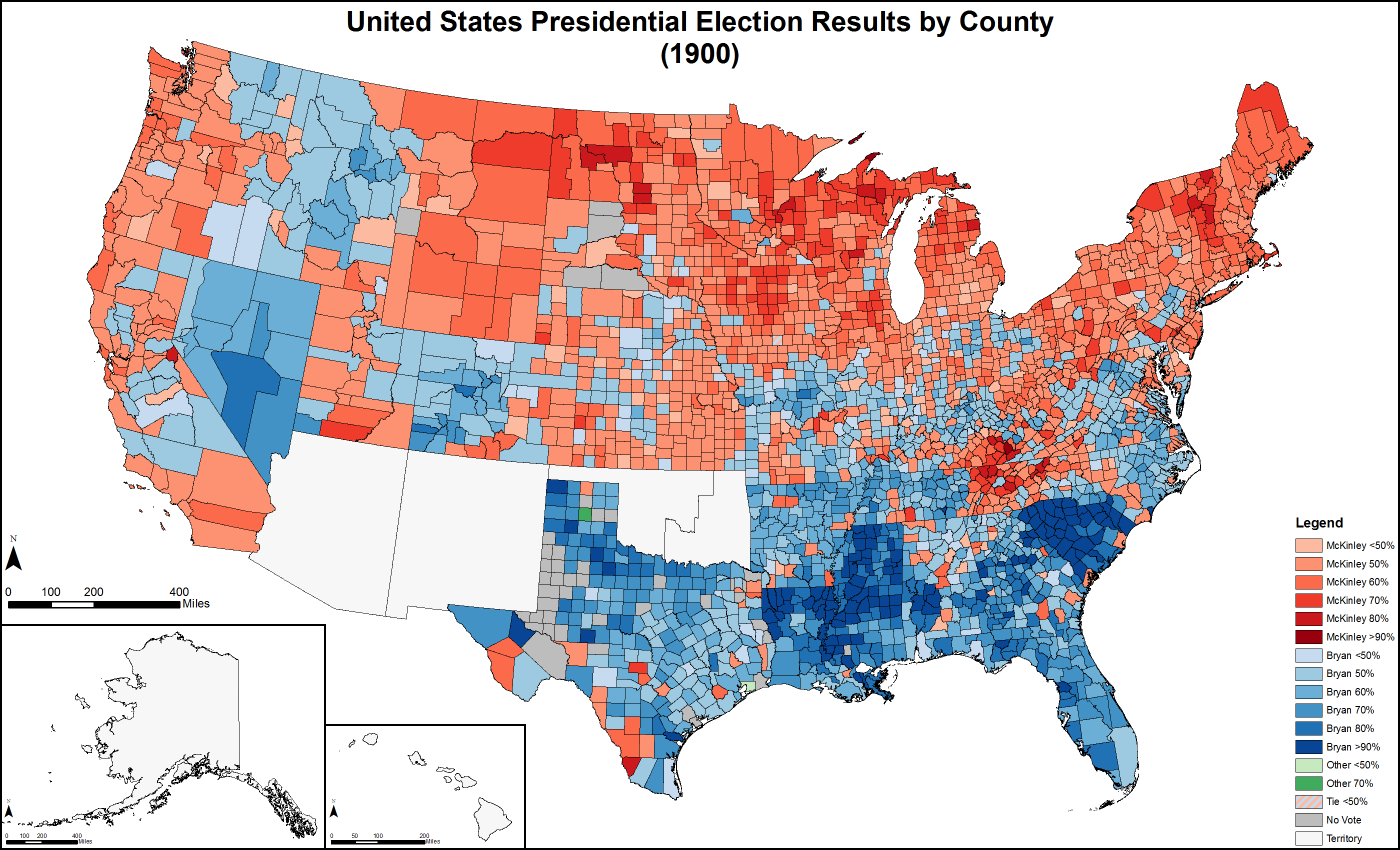 Presidential election results by county (1900). Colors based on Colorbrewer 2.0.